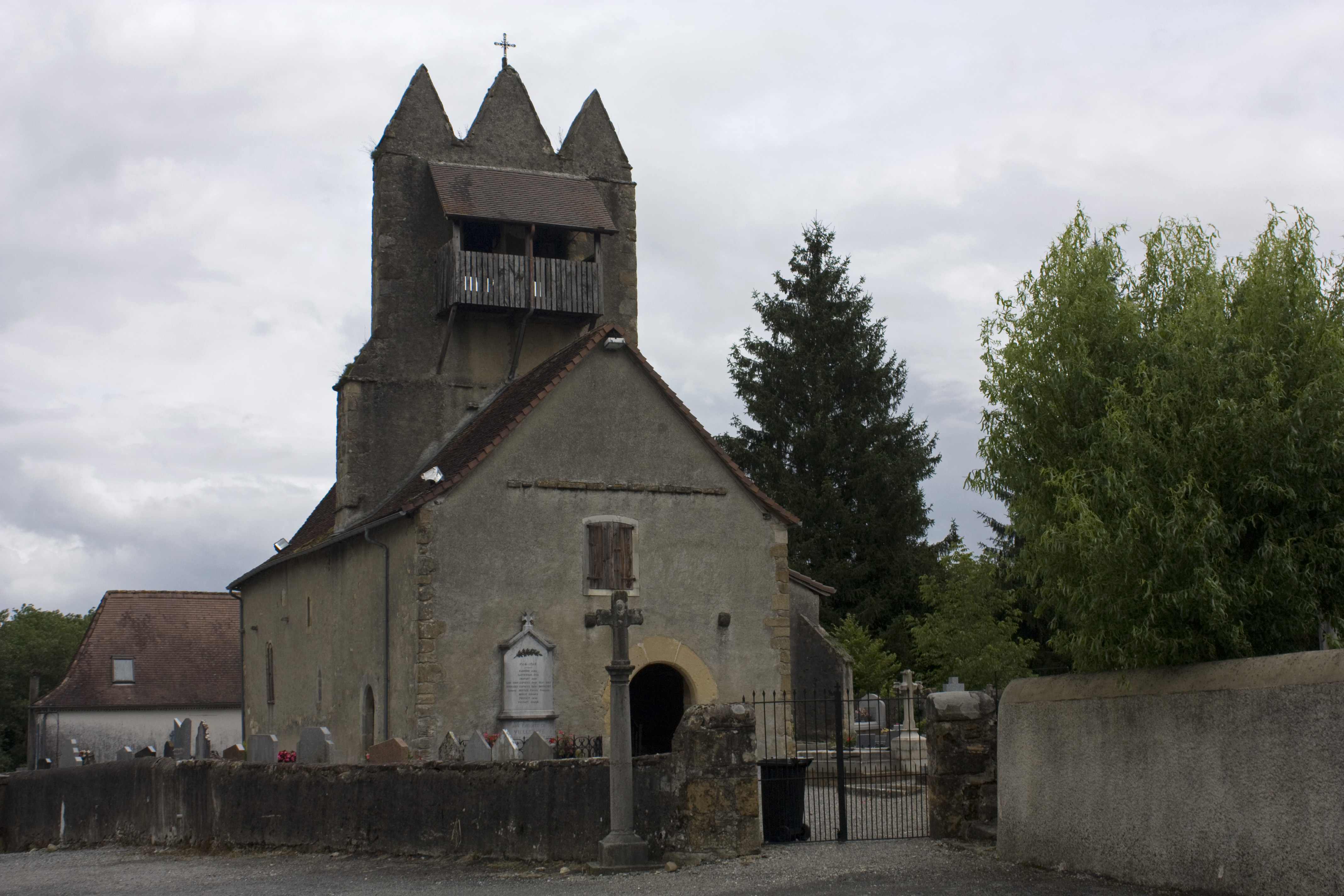 The curiuous church with trinity spire of Viellenave-de-Navarrenx.